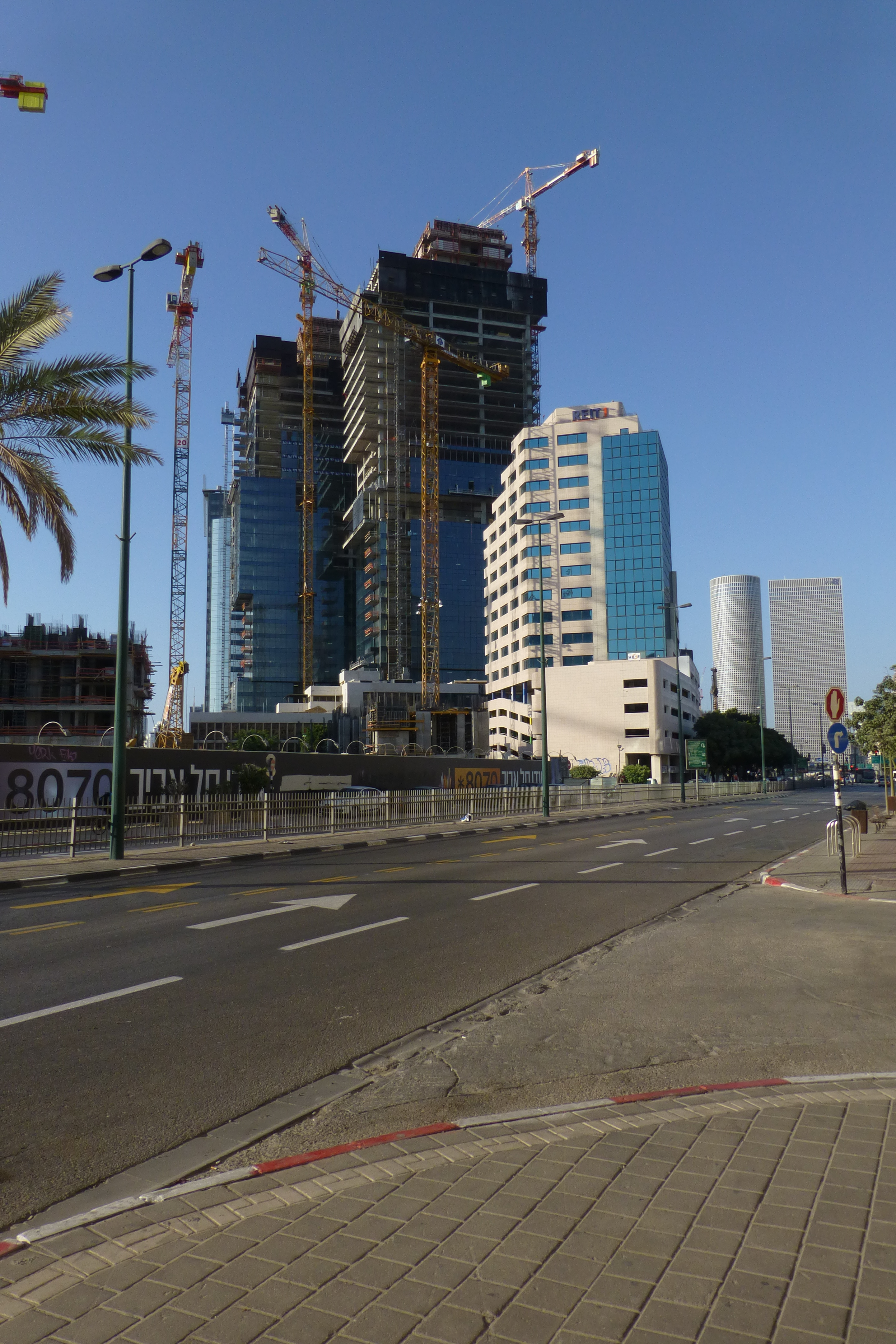 Begin Road, Tel Aviv-Yafo